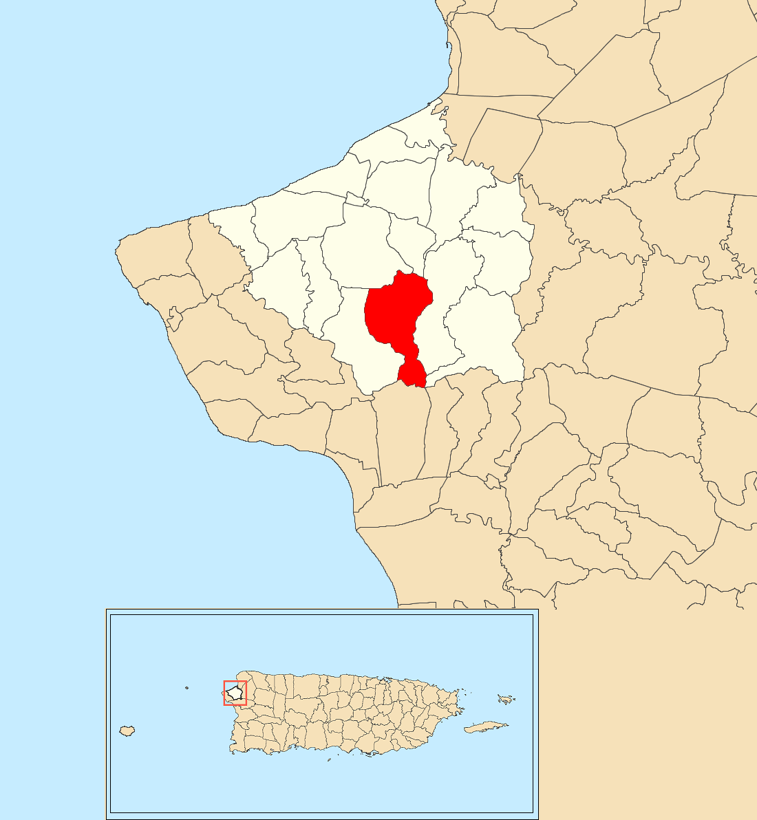 Lagunas, Aguada, Puerto Rico locator map